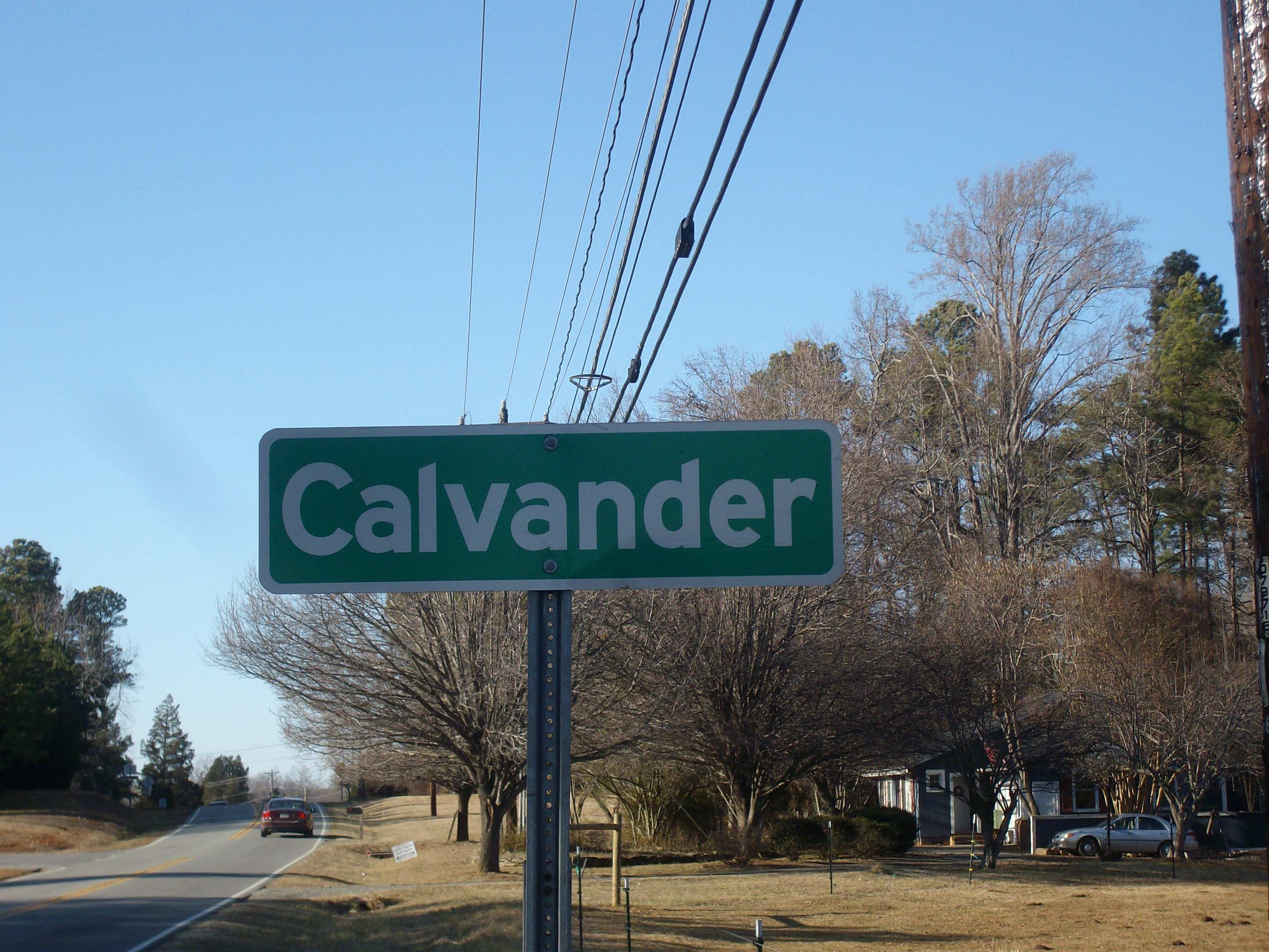 Old NC 86 approaching Calvander,North Carolina from Carrboro.